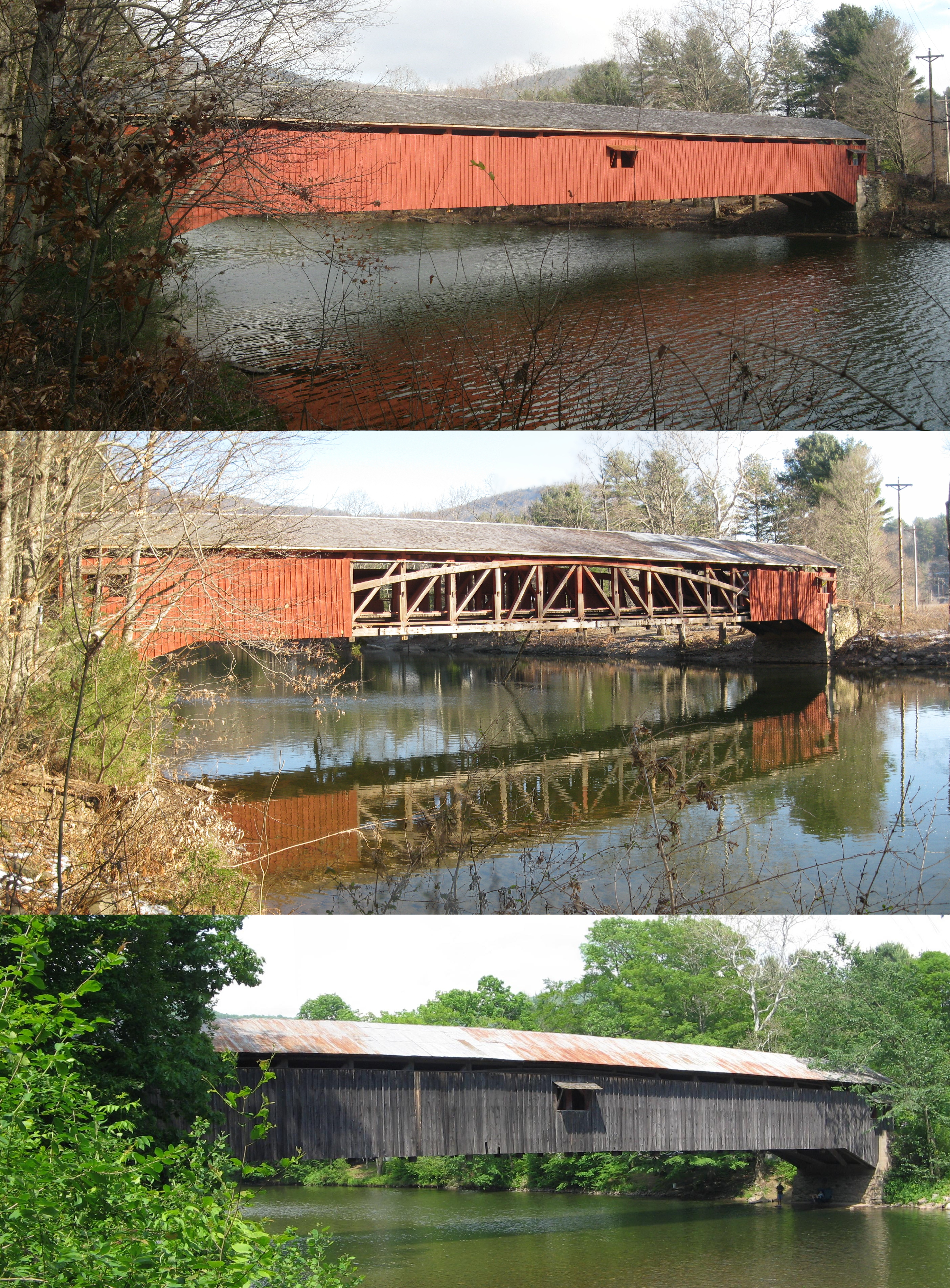 Hillsgrove Covered Bridge over Loyalsock Creek in Hillsgrove Township, Sullivan County, Pennsylvania in the United States, as seen in 2012 after restoration (top), 2011 after flood damage (middle), and 2008 (bottom).